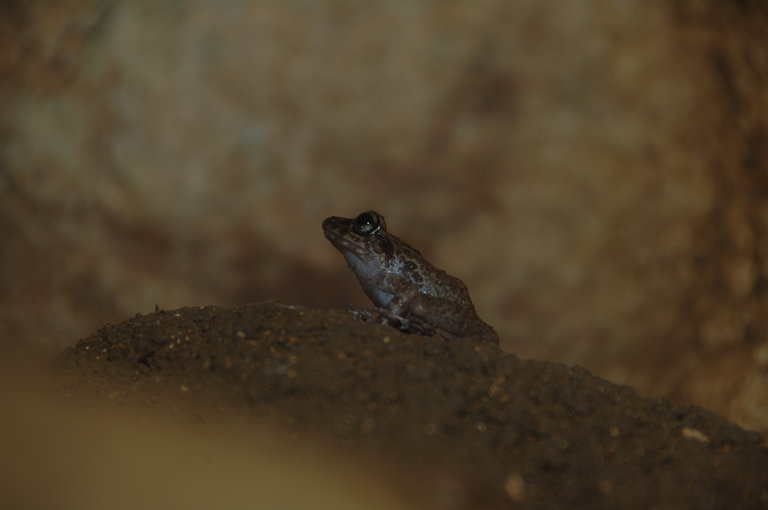 Platymantis insulatus